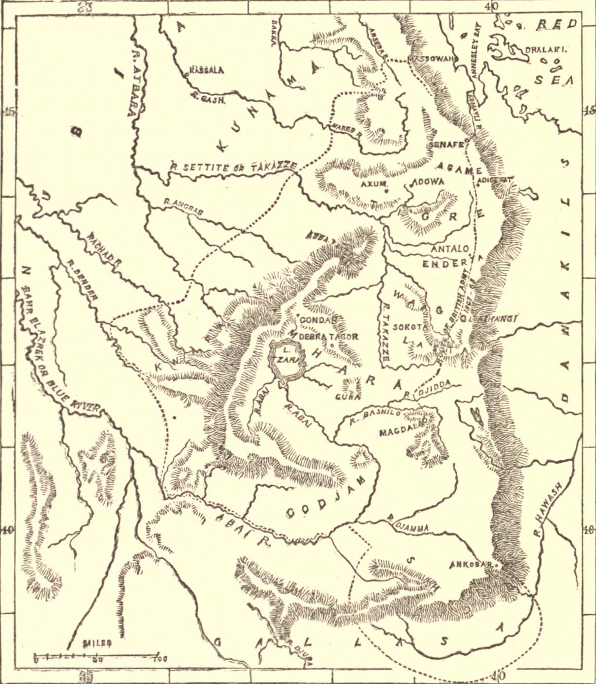 A map of the Empire of Ethiopia (Abyssinia) c. 1878. The route of the 1867–68 British rescue mission and then-current boundaries of the empire of Yohannes IV are shown.